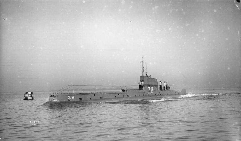 Photograph of British submarine HMS D8.